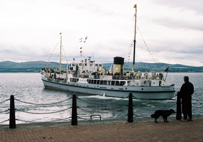 SS Shieldhall leaving Custom House quay, Greenock. IMO Number: 5322752 MMSI Number: 232003964 Callsign: GNGE Length: 82 m Beam: 13 m